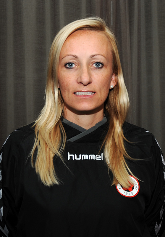 Icelandic soccer coach Elisabet Gunnarsdottir